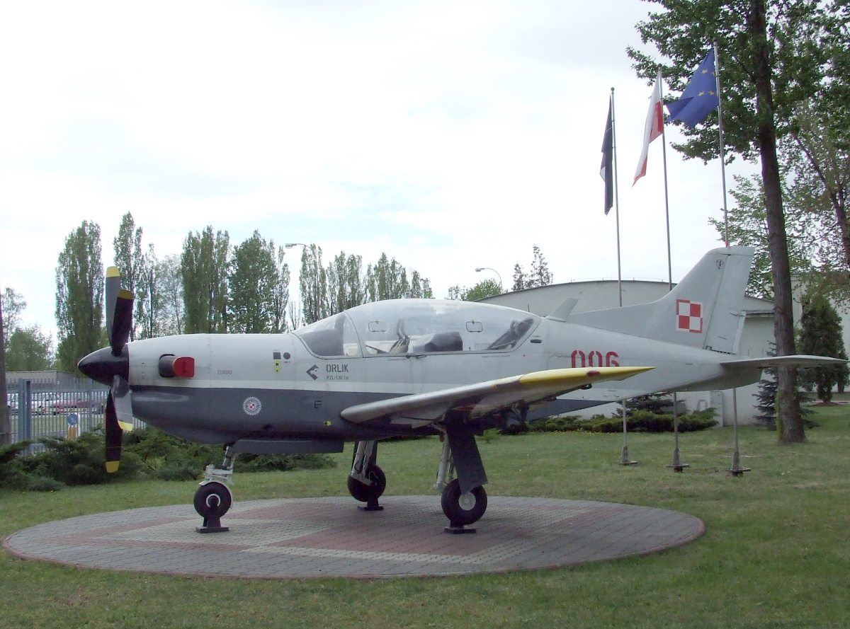 Air Force Institute of Technology